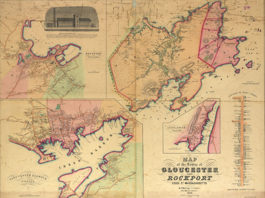 Map of the towns of Gloucester and Rockport, Essex Co., Massachusetts Author: Walling, Henry Francis Publisher: Kollner, A. Date: 1851